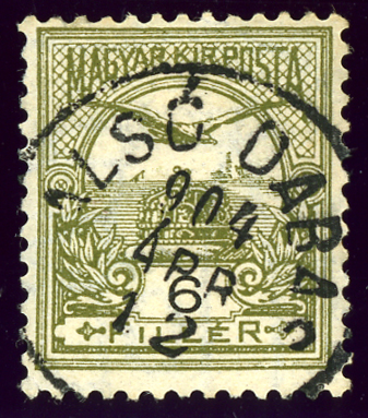 Kingdom of Hungary 6 fillér olive stamp, sub-issue 1902, cancelled at ALSÓ DABAS in 1904.